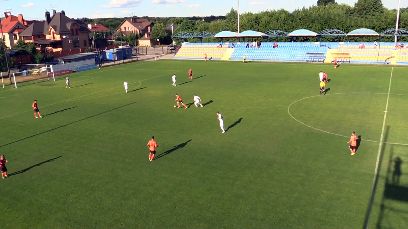 Kniazha Arena in Shchaslyve, Boryspil Raion, Kyiv Oblast, Ukraine